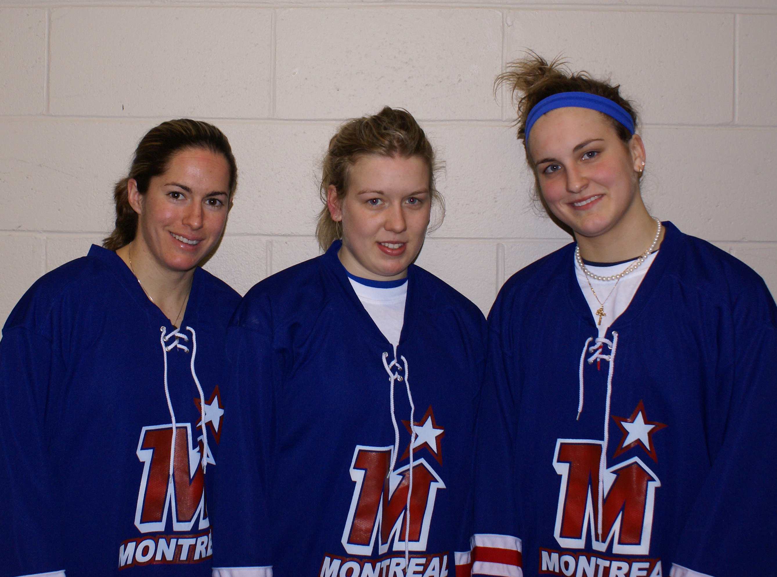 Katie Weatherston, Leslie Oles and Marie-Philip Poulin